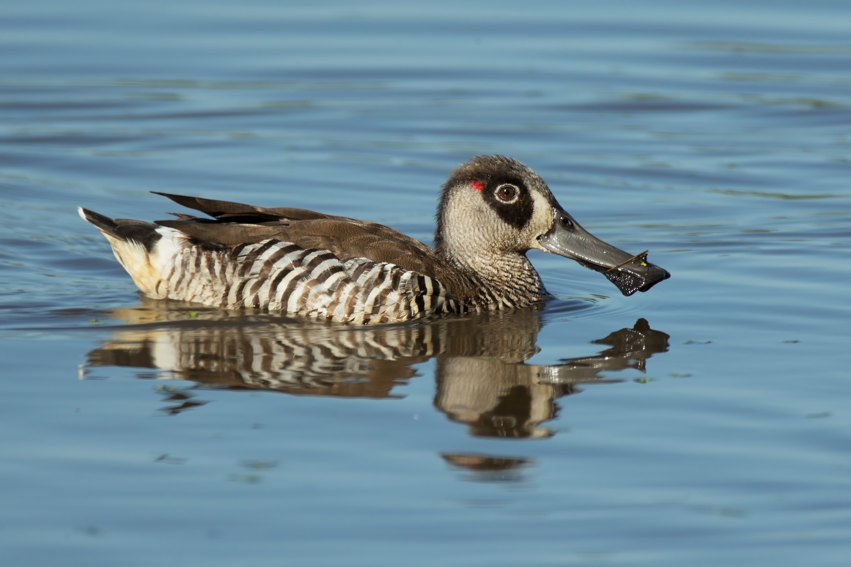 Pink-eared Duck (Malacorhynchus membranaceus), Bushell's Lagoon, New South Wales, Australia